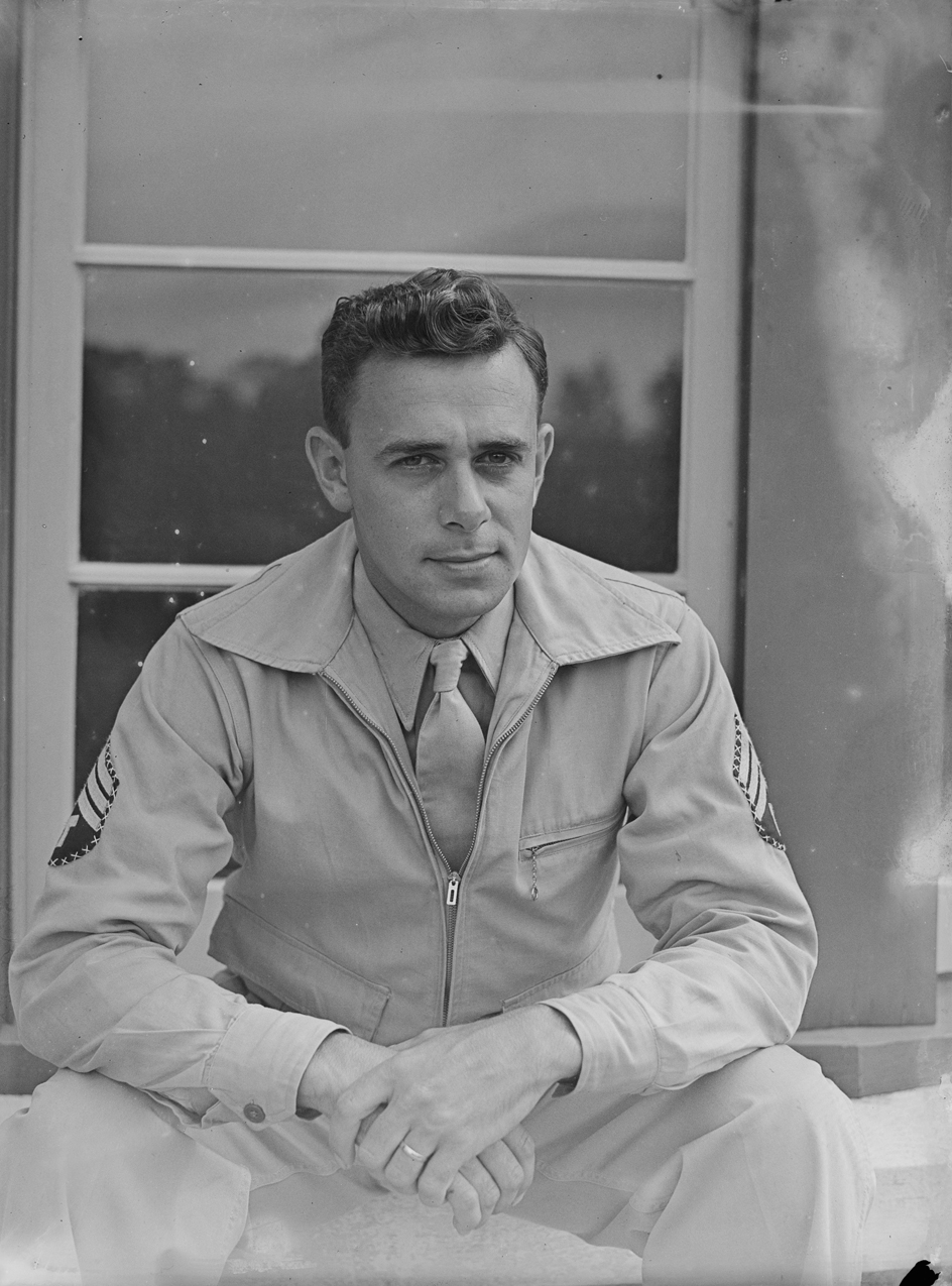 Army Technician Fourth grade.